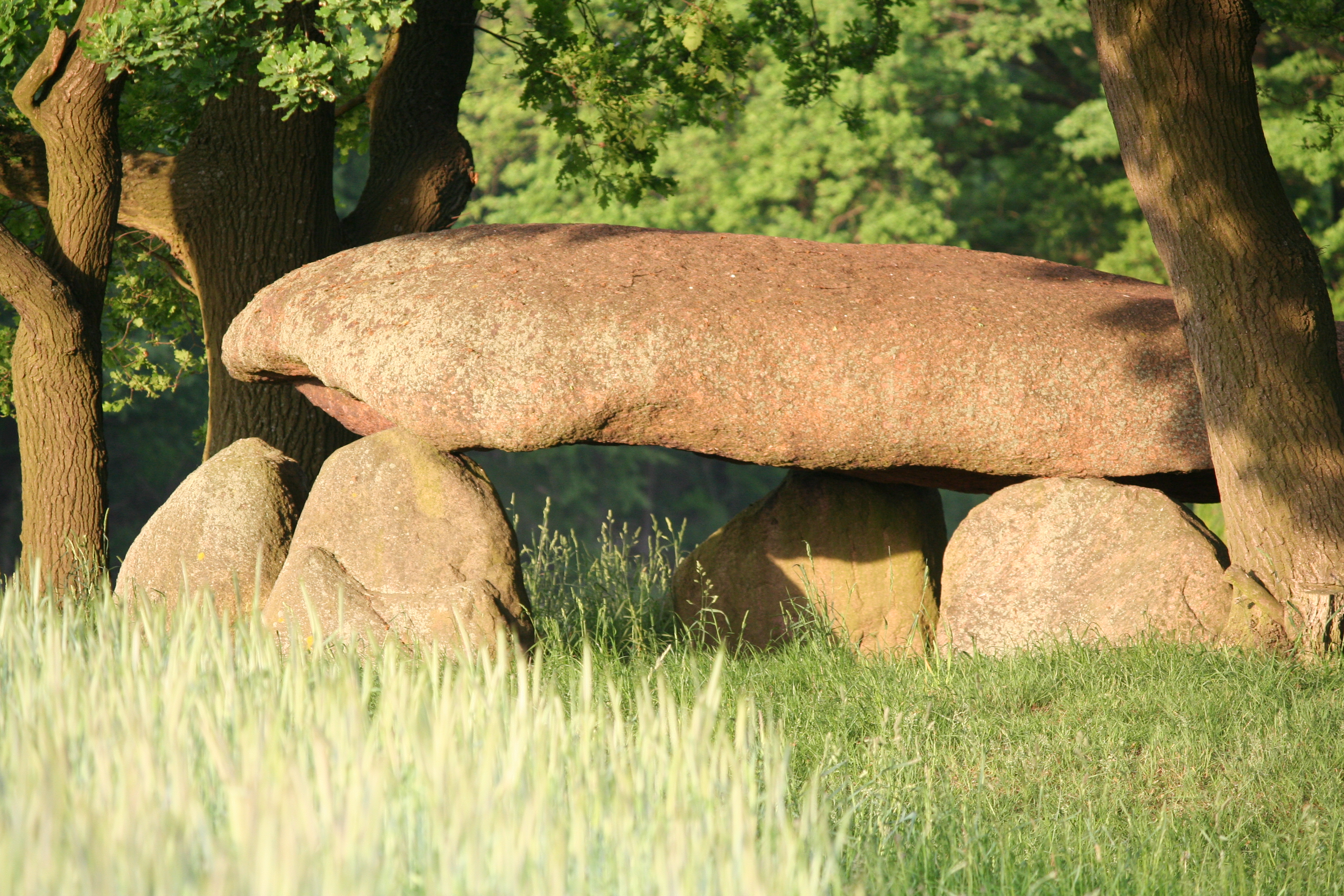 Dolmen in Stöckheim (Rohrberg), Altmark